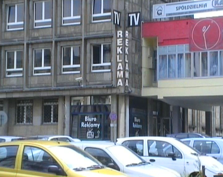 The advertising agency of TVP Łódź by the Narutowicz street 13 in Łódź.